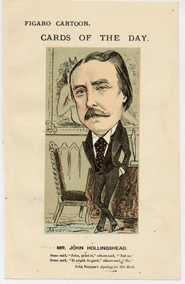 Figaro cartoon of John Hollingshead, manager of the Gaiety Theatre, London